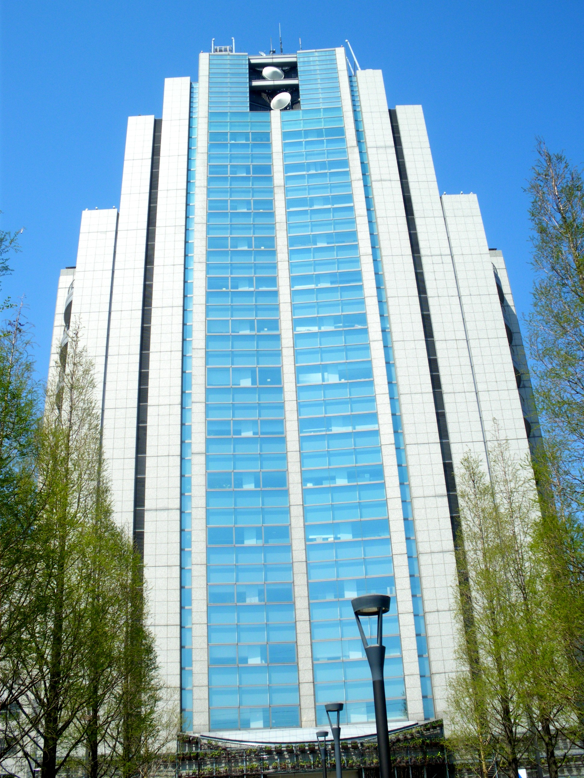 A photo of an overview of Adachi City office(South wing)Chuohoncho,Adachi-ku,Tokyo,Japan.